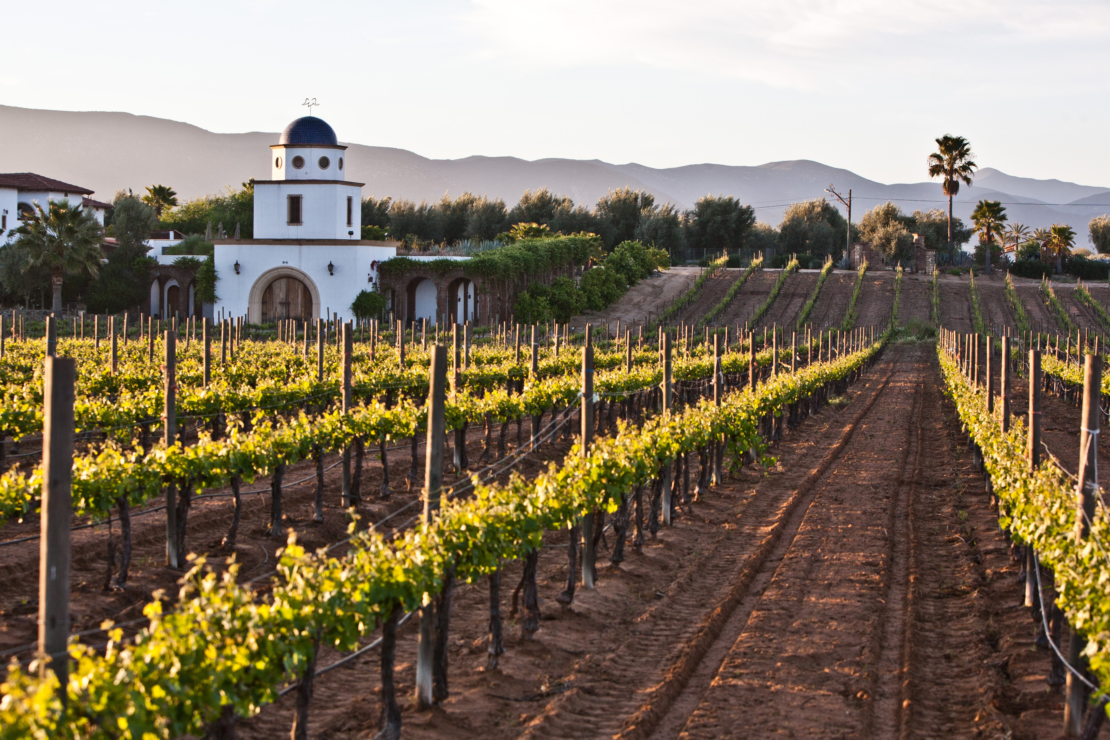 Adobe Guadalupe Winery, one of the fines wine producers in Mexico.